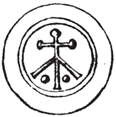 Coin of Eric Sigursel, i.e. King Eric the Victorious of SwedenPlace: Sweden